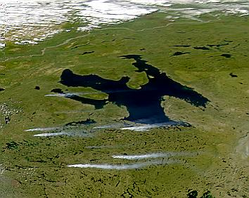 Smoke Plumes near Great Bear Lake